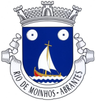 Coat of arms of Rio de Moinhos